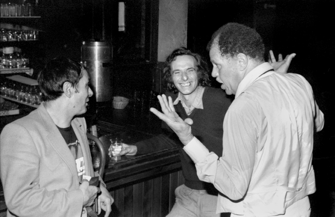 Saxophonists Art Pepper (left) and Dexter Gordon (right) chat with North Beach poet Jack Hirschman (center) at the bar of jazz club Keystone Korner, San Francisco, 10/31/1981. Photo by Brian McMillen /